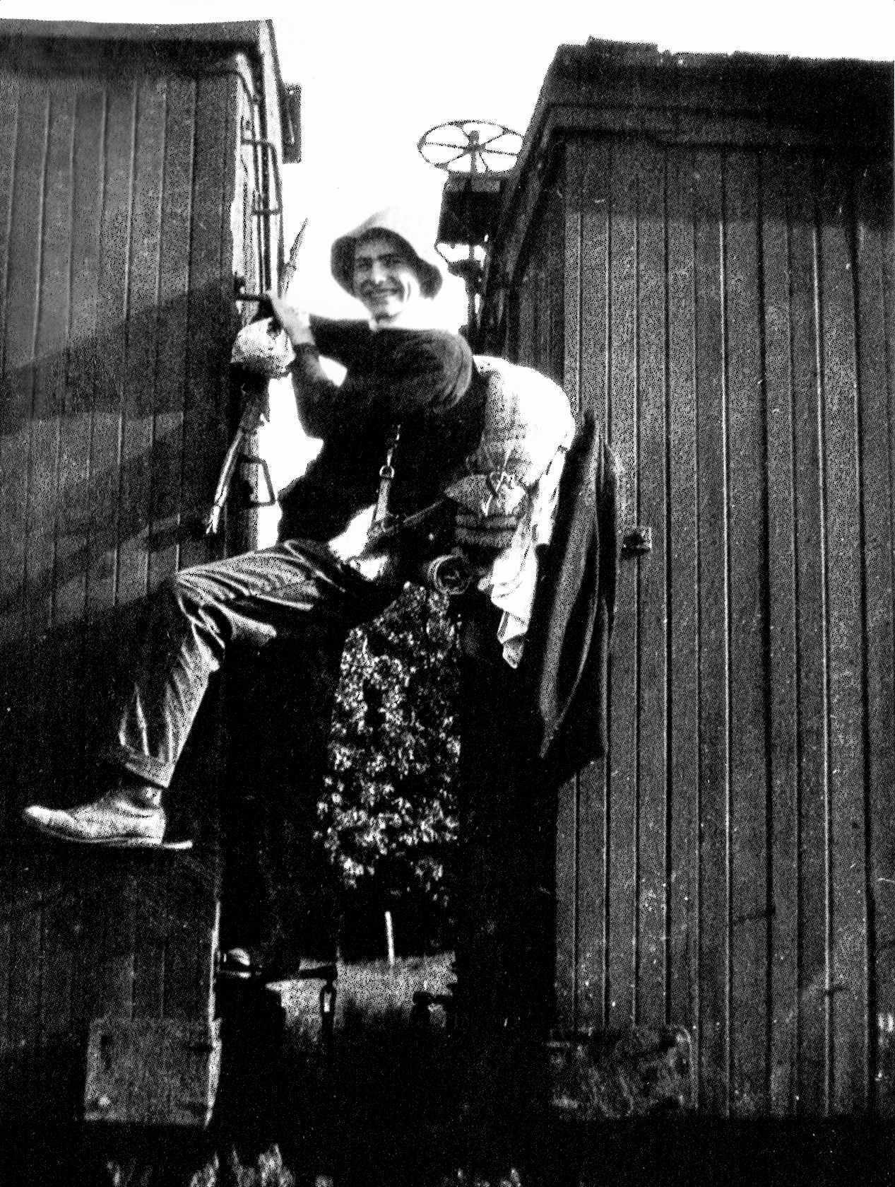 This is a restoration of File:Hemingway train surf.jpg. The damage in the upper left has been fixed, levels adjusted, the image desaturated, and some dust spots removed.